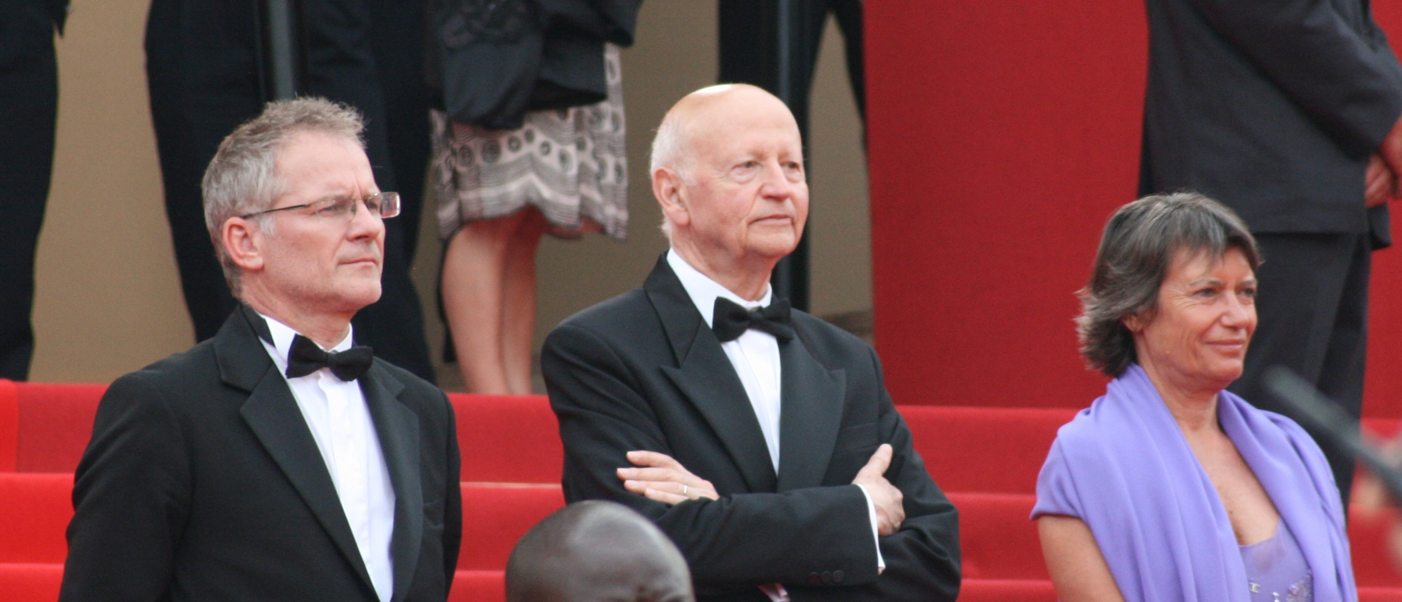 Thierry Frémaux, Gilles Jacob and Véronique Cayla.